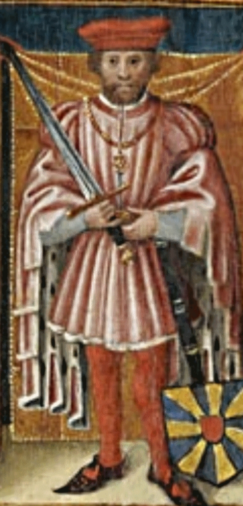 Arnulf II, Count of Flanders